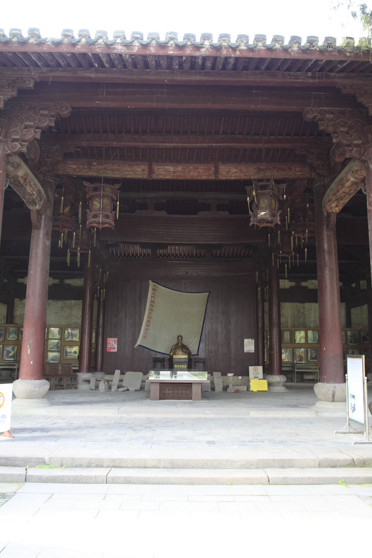 Site of King Shiwang's Residence of the Taiping Heavenly Kingdom in Jinhua, Zhejiang，the key historical sites under state protection